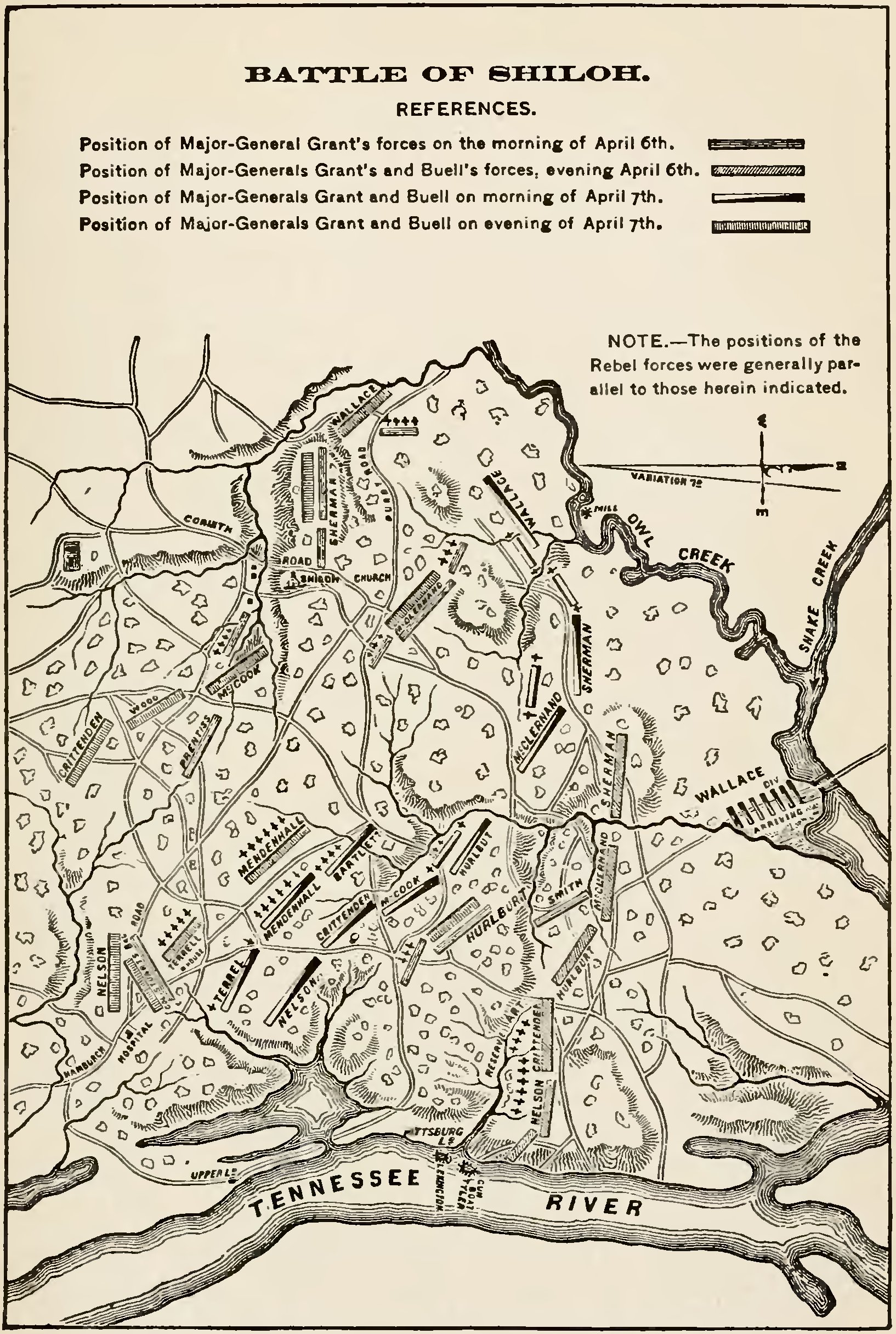 Illustration in History of Iowa From the Earliest Times to the Beginning of the Twentieth Century